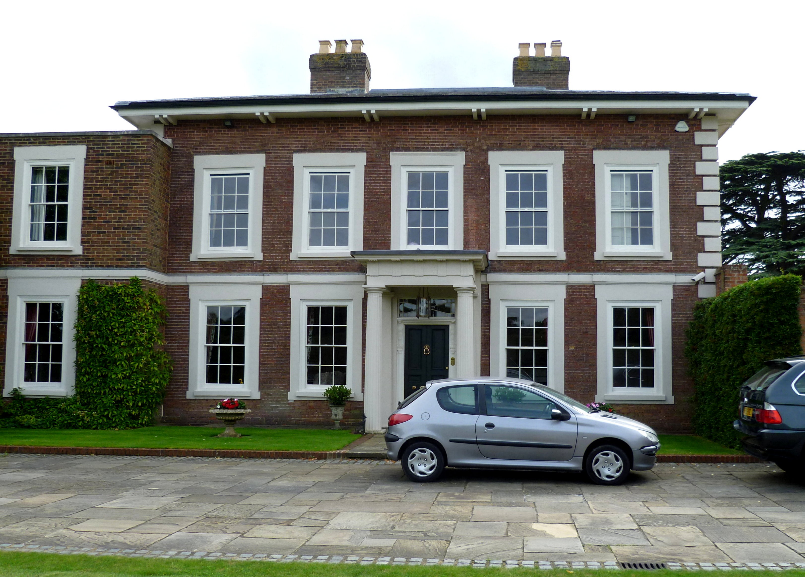 Gladsmuir 3 August 2015